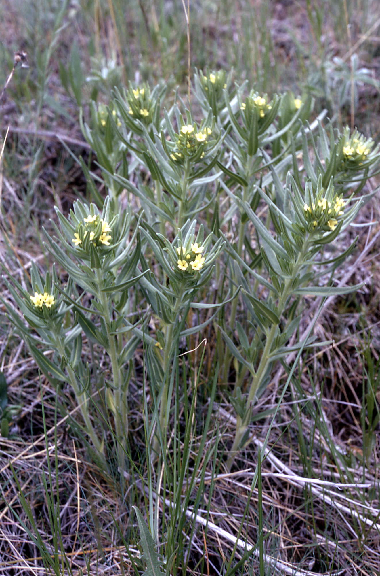 Lithospermum ruderale at Yellowstone